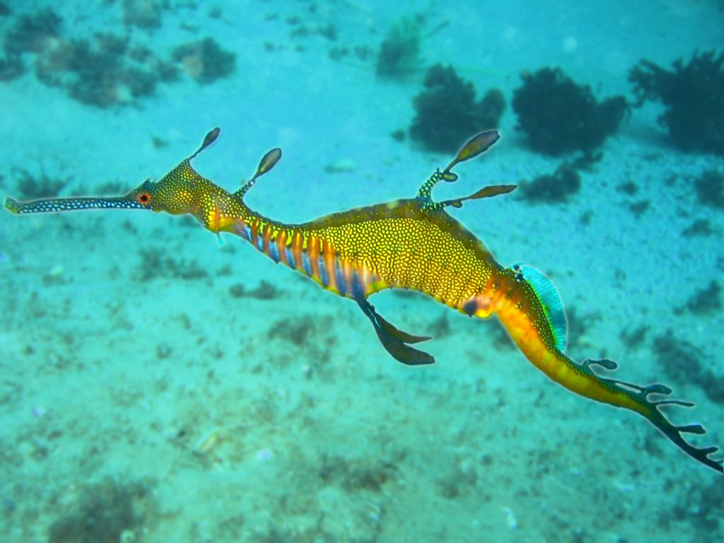 Weedy Seadragon (Phyllopteryx taeniolatus), Cabbage Tree Bay, Sydney, Australia.